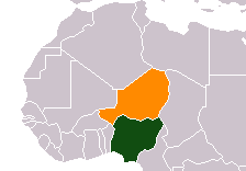 locator map for Template:Infobox_Bilateral_relations Niger Nigeria bilaterl relations